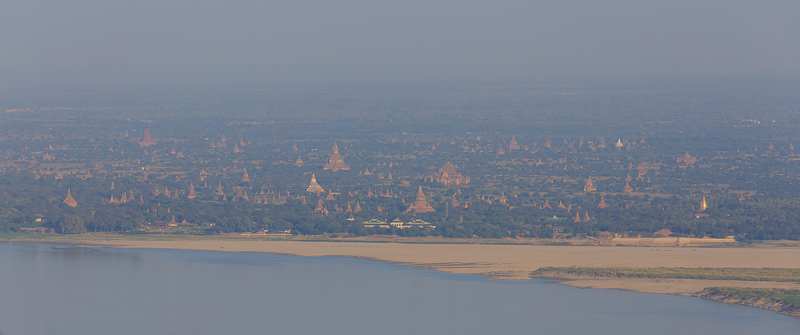 The plains of Bagan, as seen from Tant Kyi Taung temple.